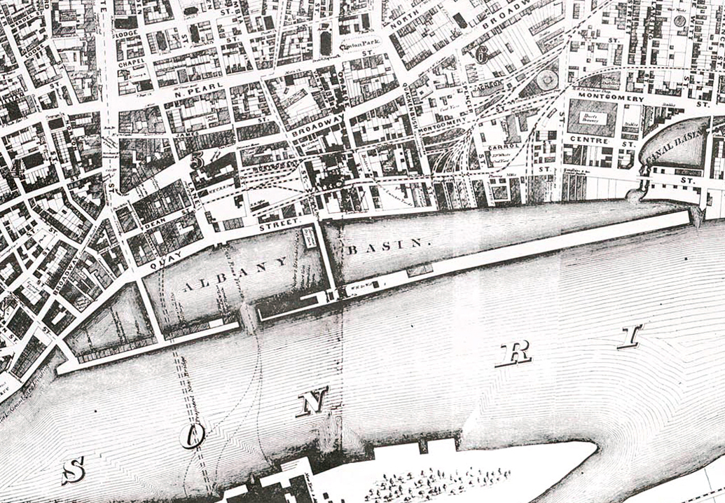 Map of Albany, New York, United States highlighting the Albany Basin.